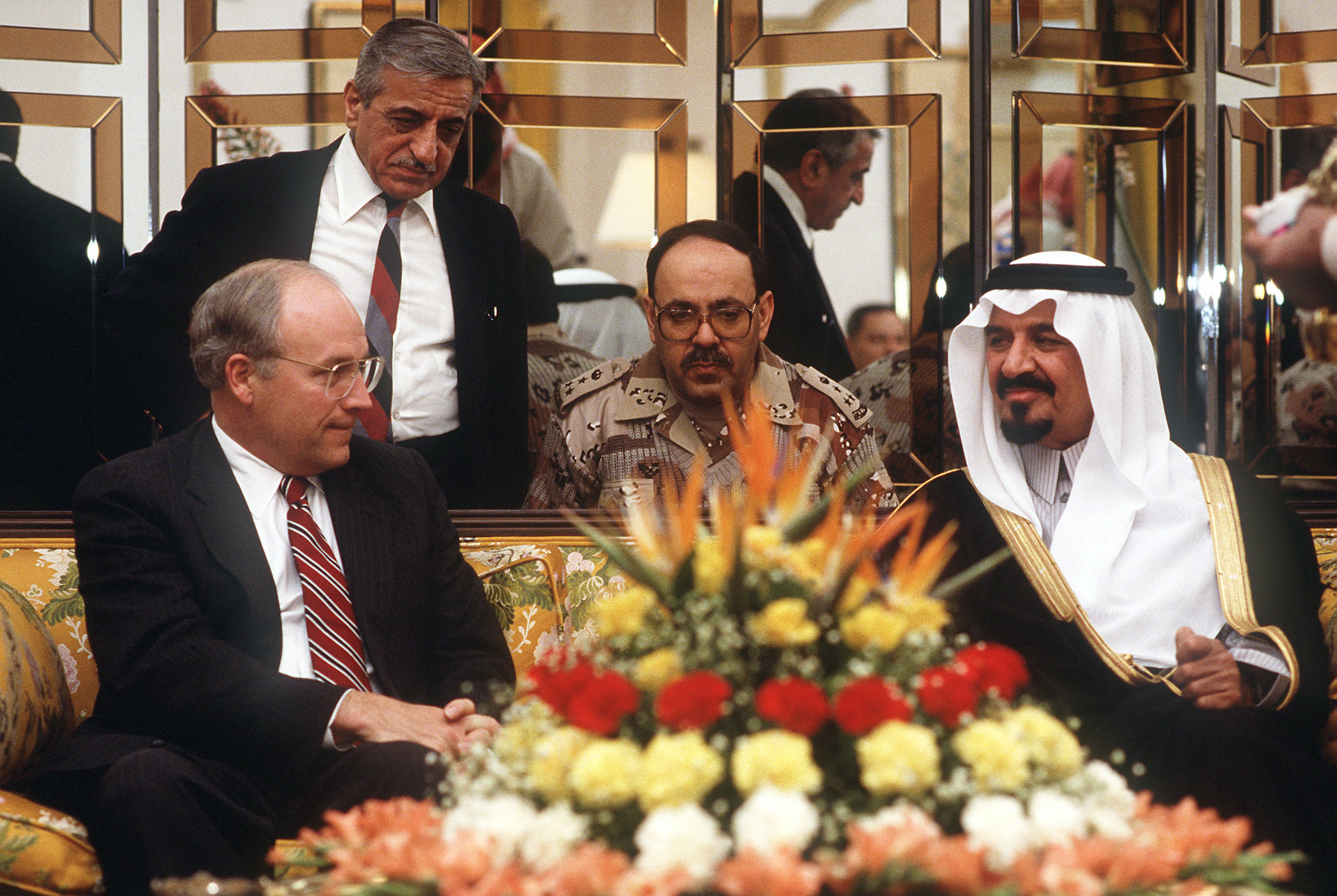 Dick Cheney meets with Prince Sultan, Minister of Defence and Aviation in Saudi Arabia.